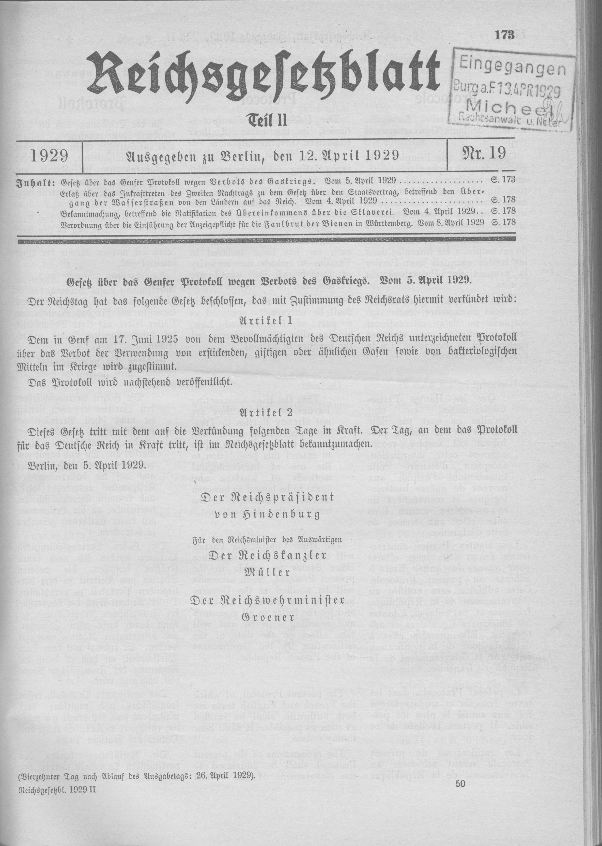 Scan from the Imperial Law Gazette of Germany, 1929, part 2